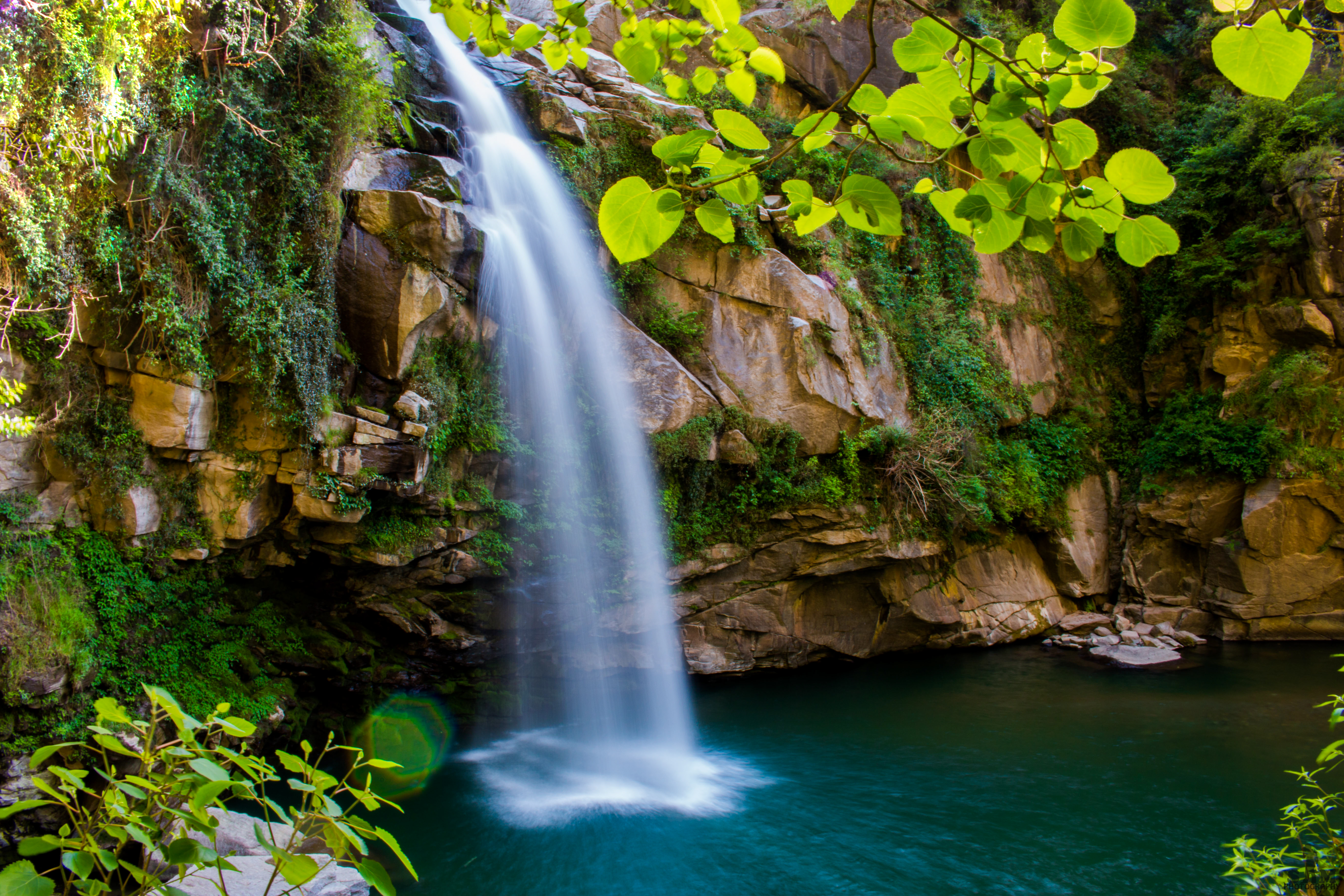 Shingrai Waterfall (often called: Shingro Dand) is situated in Shingrai Manglawar, which is situated 18 Km Northeast side to main city of Swat; Mingora, of drive about 40 minutes.Shingrai Waterfall is about 10,000 feet above sea level. The Diameter of Waterfall is about: 70 feet. The Height of Waterfall is about: 35 feet.